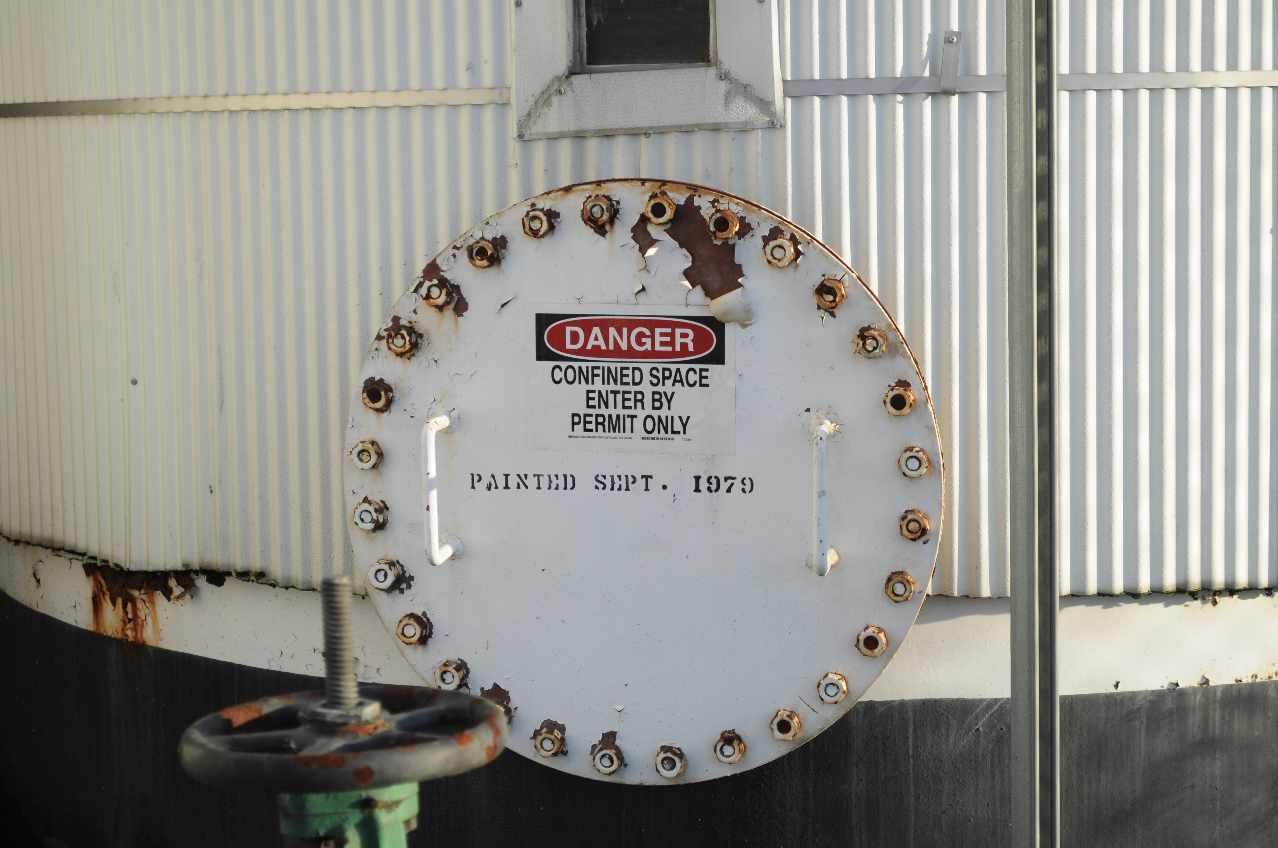 Sign on tank on Harbor Island, Seattle, Washington, USA. "Danger: confined space enter by permit only" and under that "Painted Sept. 1979" (which would mean this has not been painted in over 30 years).